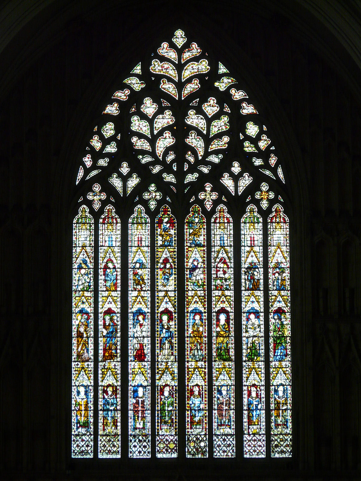 The Great West Window, known as the “Heart of Yorkshire” York Minster, York, England